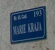 Pictures from Prizren Kosovo